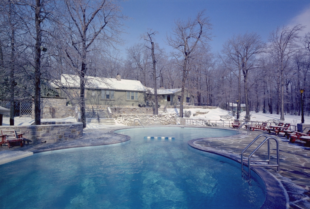 Exterior of Camp David lodge with swimming pool in foreground.